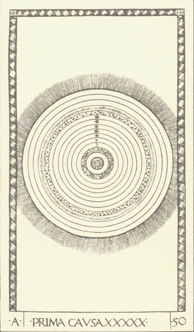 Card no. 50 from the E-series of the so-called Mantegna Tarocchi (or Mantegna tarot, Tarocchi del Mantegna etc.), entitled Prima causa (first cause), showing a diagram of the universe.